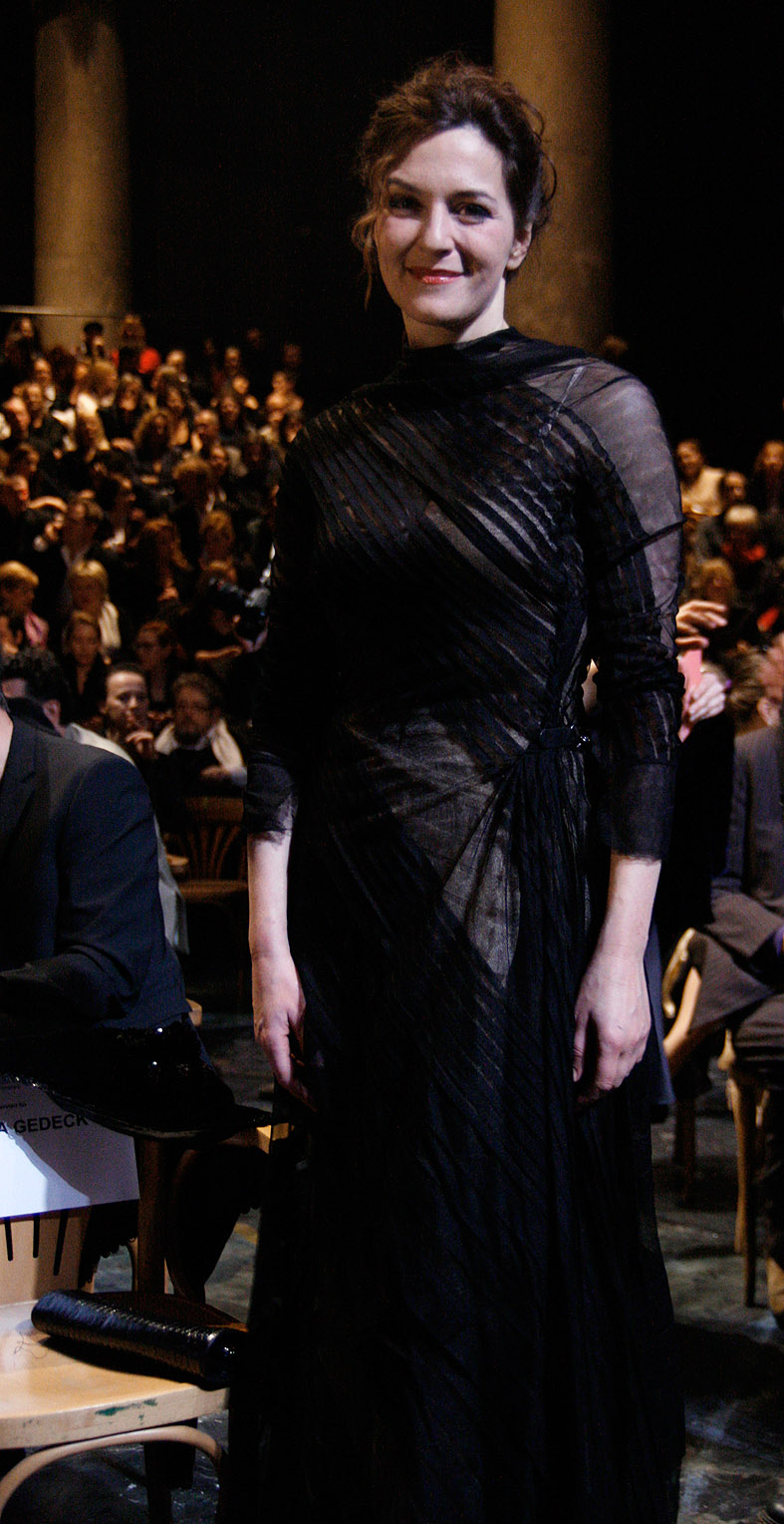 Martina Gedeck at the Austrian Film Awards 2011 at the Odeon theater in Vienna.